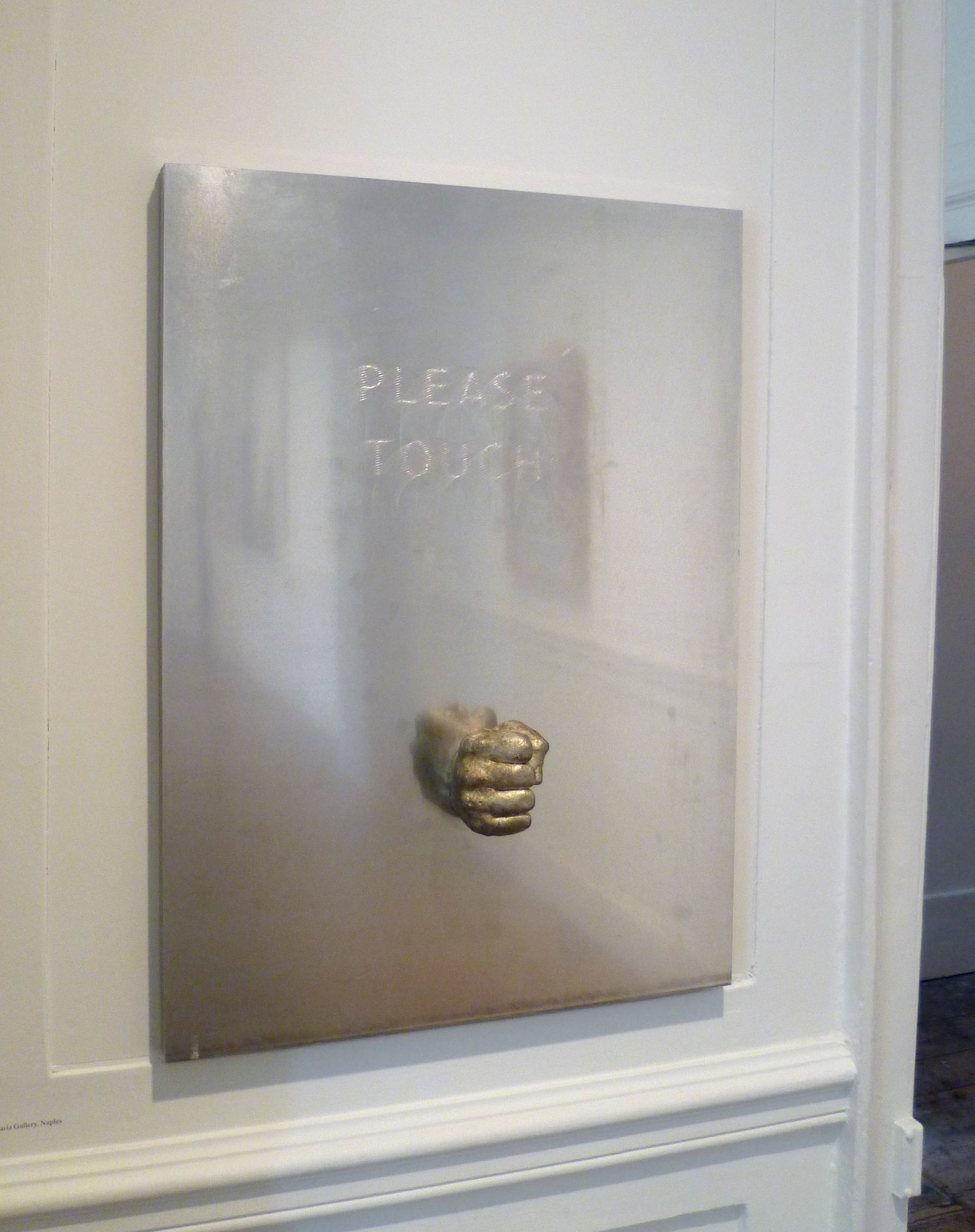 Please Touch, 2007, by Padraig Timoney. Aluminium and pewter, edition of 5. As shown at the Fontwell Helix Feely exhibition at the Raven Row Gallery, London, 12 June 2013.